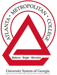 Atlanta Metropolitan College logo